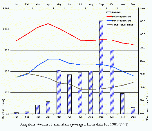 Temperature and rainfall graphs for Bangalore based on data averaged from 1981-1991. Graph made by self from meteorological data University of Agricultural Sciences, Bangalore GKVK station.